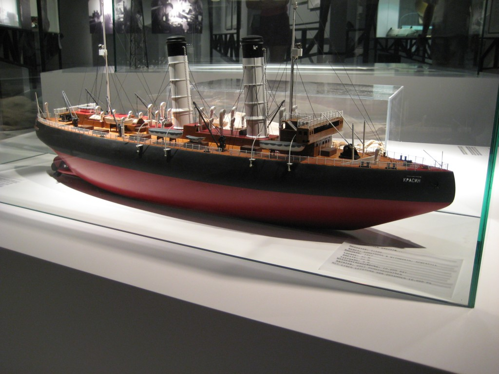 model of icebreaker Krassin photographed in the Zeppelin museum Friedrichshafen